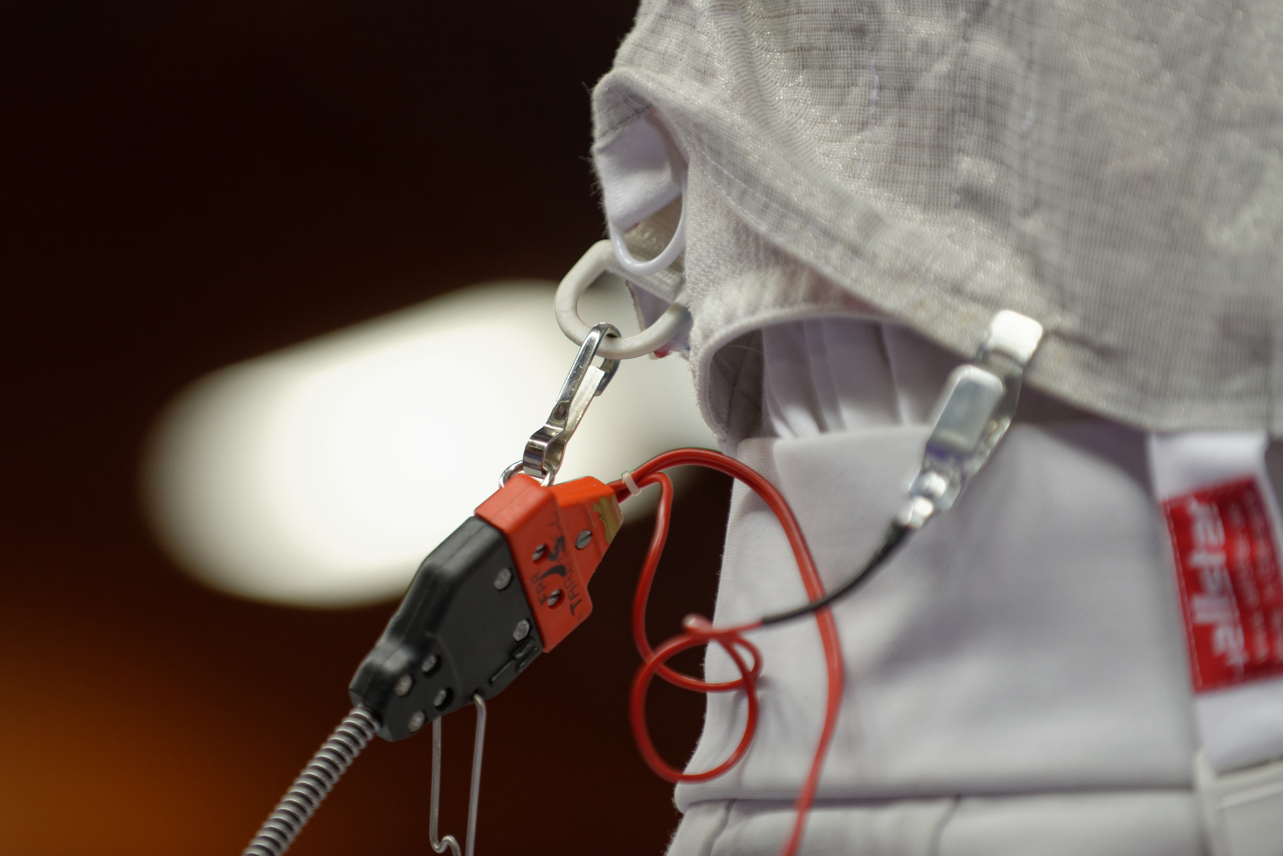 A body cord plugged to a foil fencer's vest.